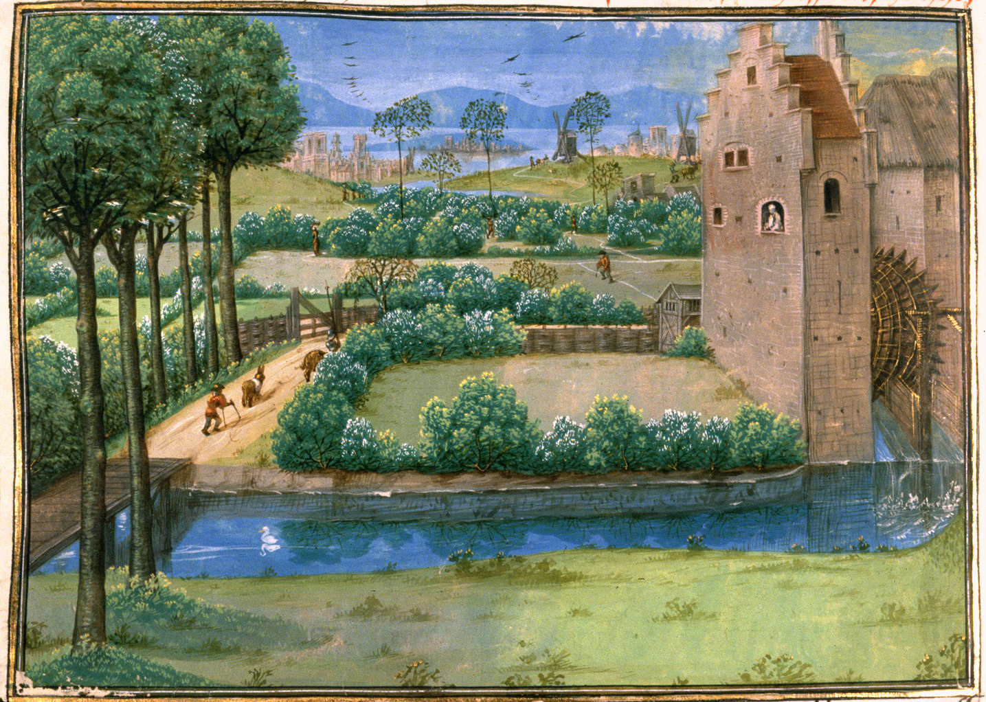 Landscape with a watermill (Miniature) Landscape with a watermill.